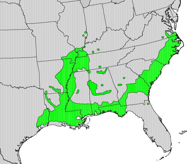 Range distribution map of Nyssa aquatica.